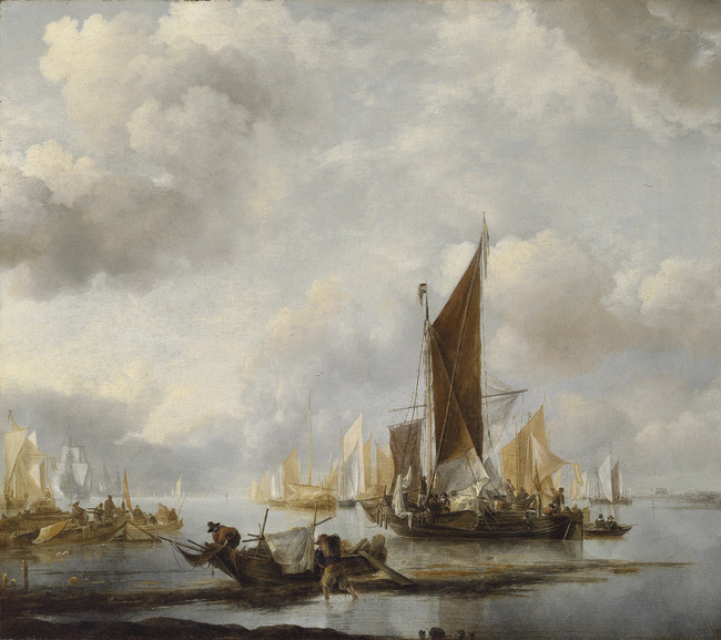 A Calm Sea with Ships near the Shore, Jan van de Cappelle, 17th c., private collection